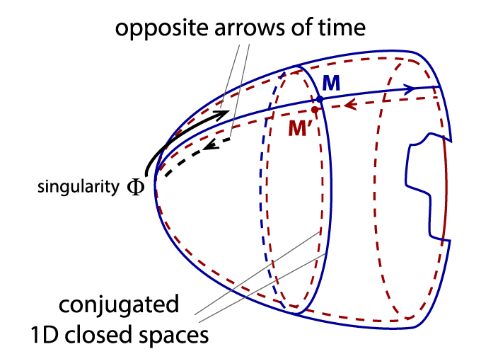 2D didactic image of Janus model. The two conjugated spaces interact through gravity and have opposite arrows of time.